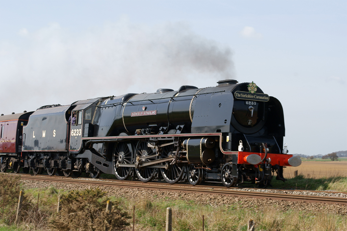 6233 'Duchess of Sutherland' hauling the 'Yorkshire Coronation' from Leicester to Scarborough. At this point the rail tour was already approx 20 mins late. Taken 10th April 2010.